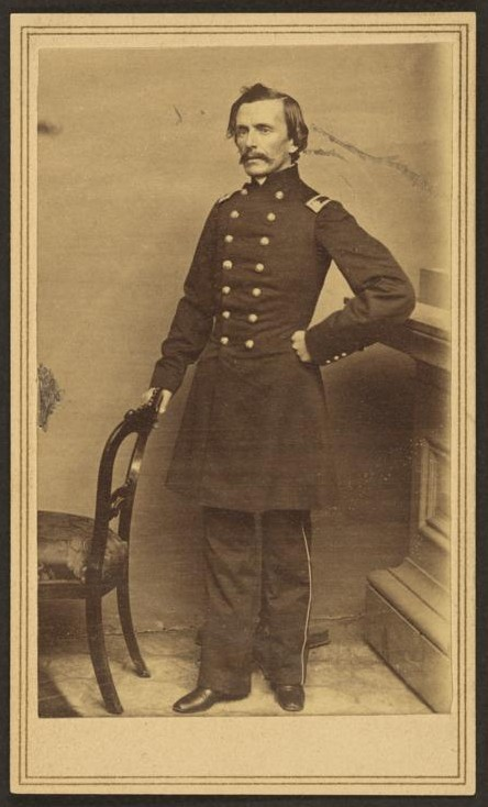 Theodore Talbot by Whitehurst Gallery, 434 Pennsylvania Avenue, Washington, D.C., Library of Congress. Note: This photograph was probably taken in August, 1861, after Talbot was promoted to the rank of brevet major.